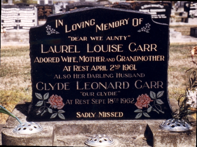 Grave of New Zealand Labour politician Clyde Leonard Carr and his wife Laurel Carr